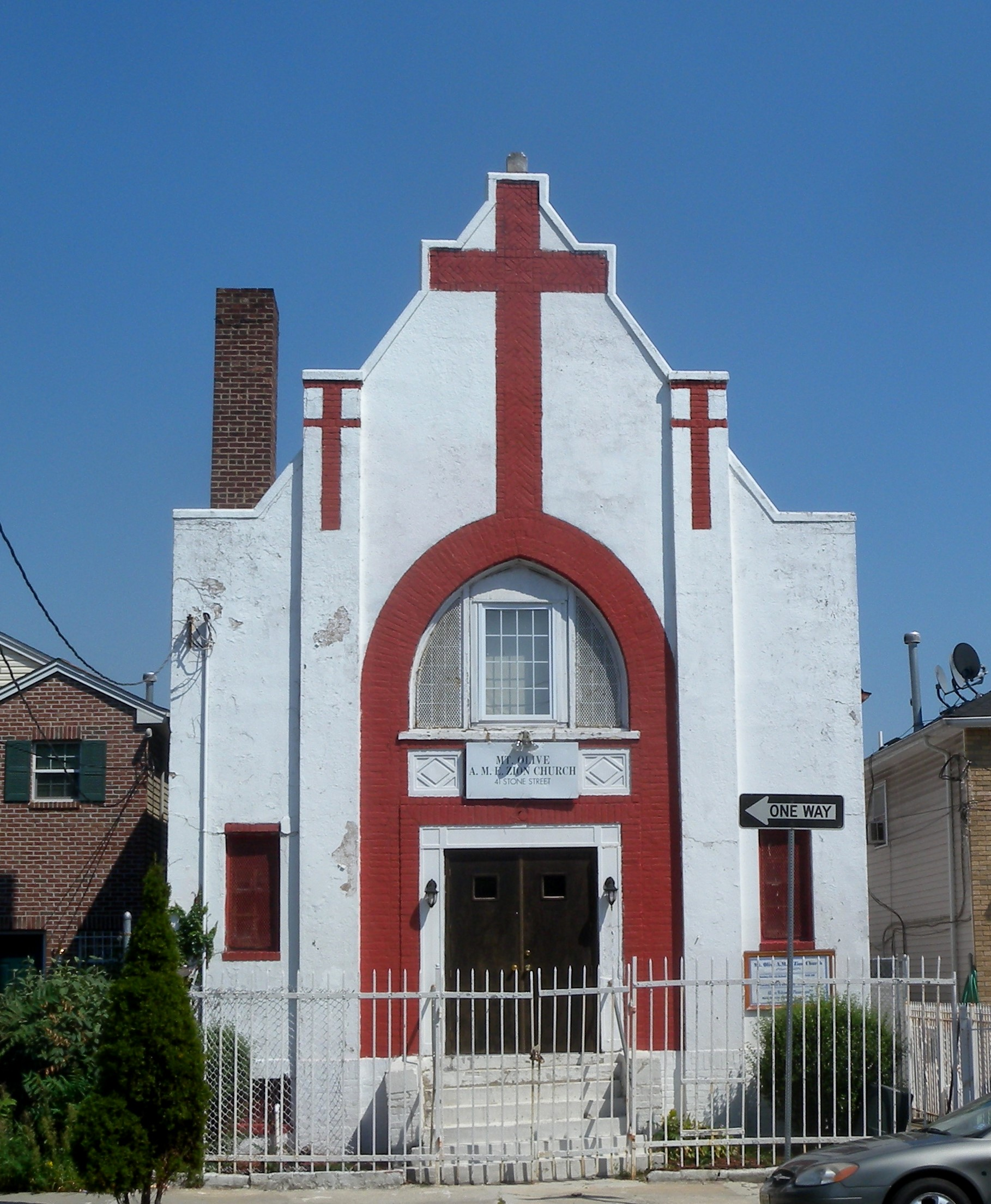 Looking east at Mt Olive AME church on a sunny midday.